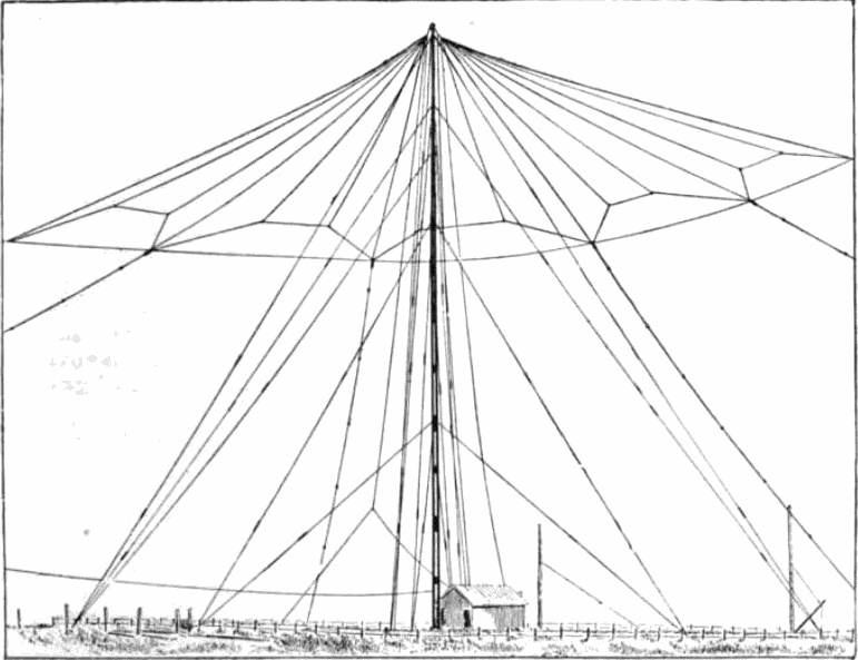 An umbrella antenna, a monopole antenna used for LF transmitting, at the longwave wireless telegraphy station of the Amalgamated Radiotelegraphic Co. at Cullarcoats, on the Northumberland coast near Newcastle, England in 1910. It consists of a 220 ft wooden lattice tower with two wires running from the transmitter in the building to the top, connected at the top to 24 bronze wires extending radially from the mast on a diagonal, attached to ropes which are anchored to the ground on a circle 220 ft in radius. The vertical wires served as an electrically short quarter-wave monopole antenna while the radial wires served as a capacitive "top hat" to increase the current in the vertical radiators. The other side of the transmitter was connected to a ground (Earth) system consisting of buried cables radiating from the base of the mast. It transmitted with both a spark gap transmitter and a Poulsen arc transmitter on a frequency of 200 kHz.